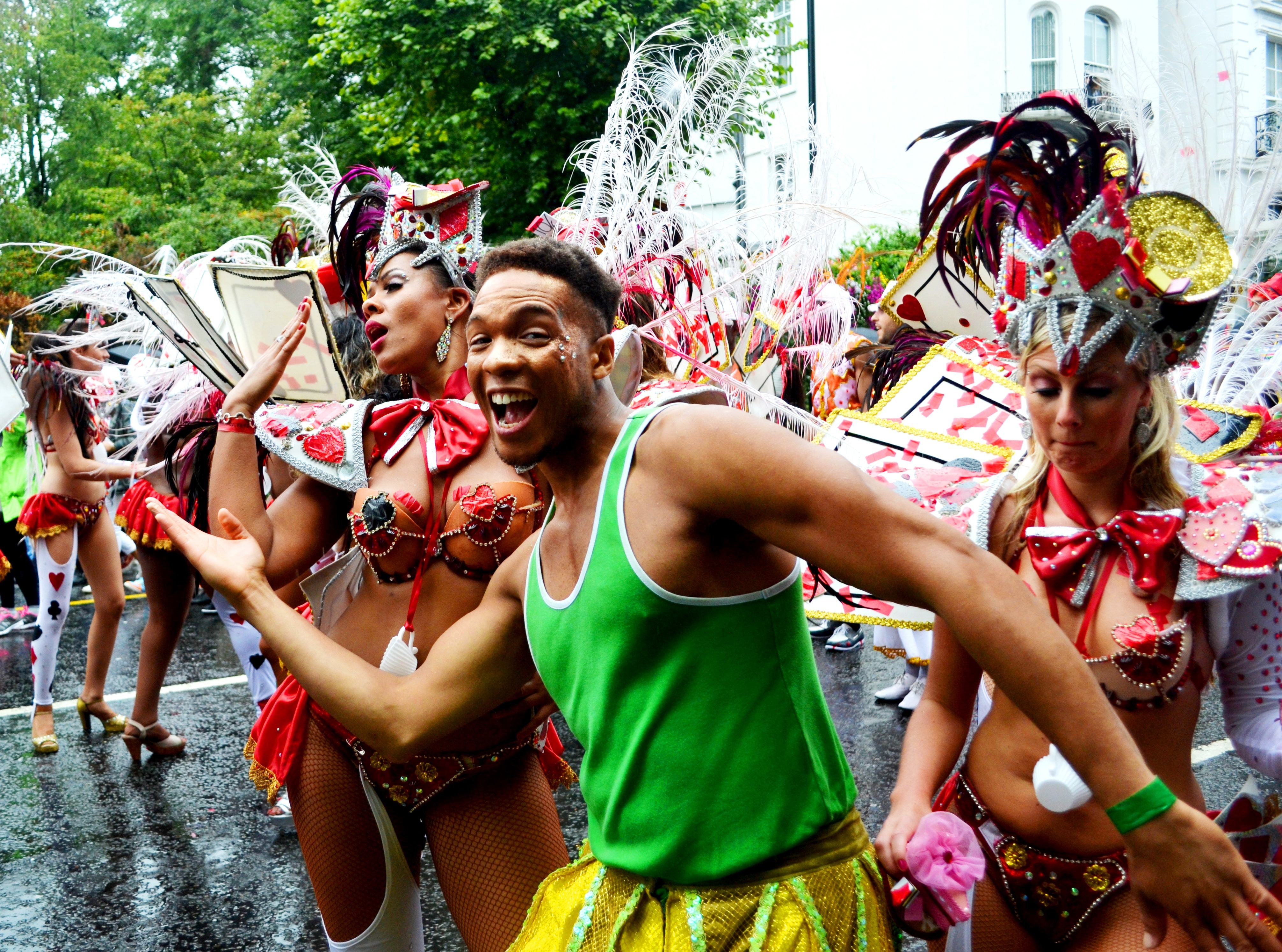 Notting Hill Carnival 2014, London, U.K.